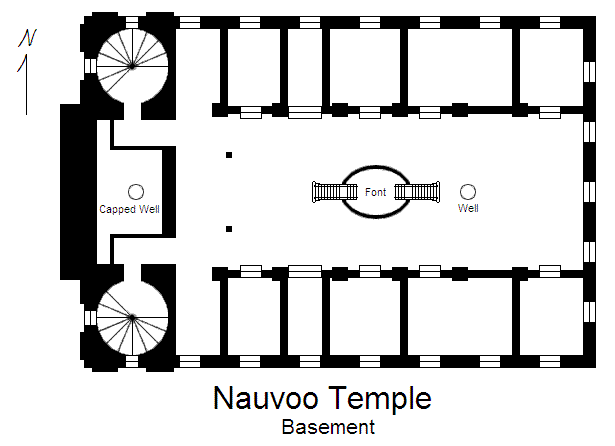 Created by Brian Davis Using a combination of GIMP and good ol' MS Windows Paint.